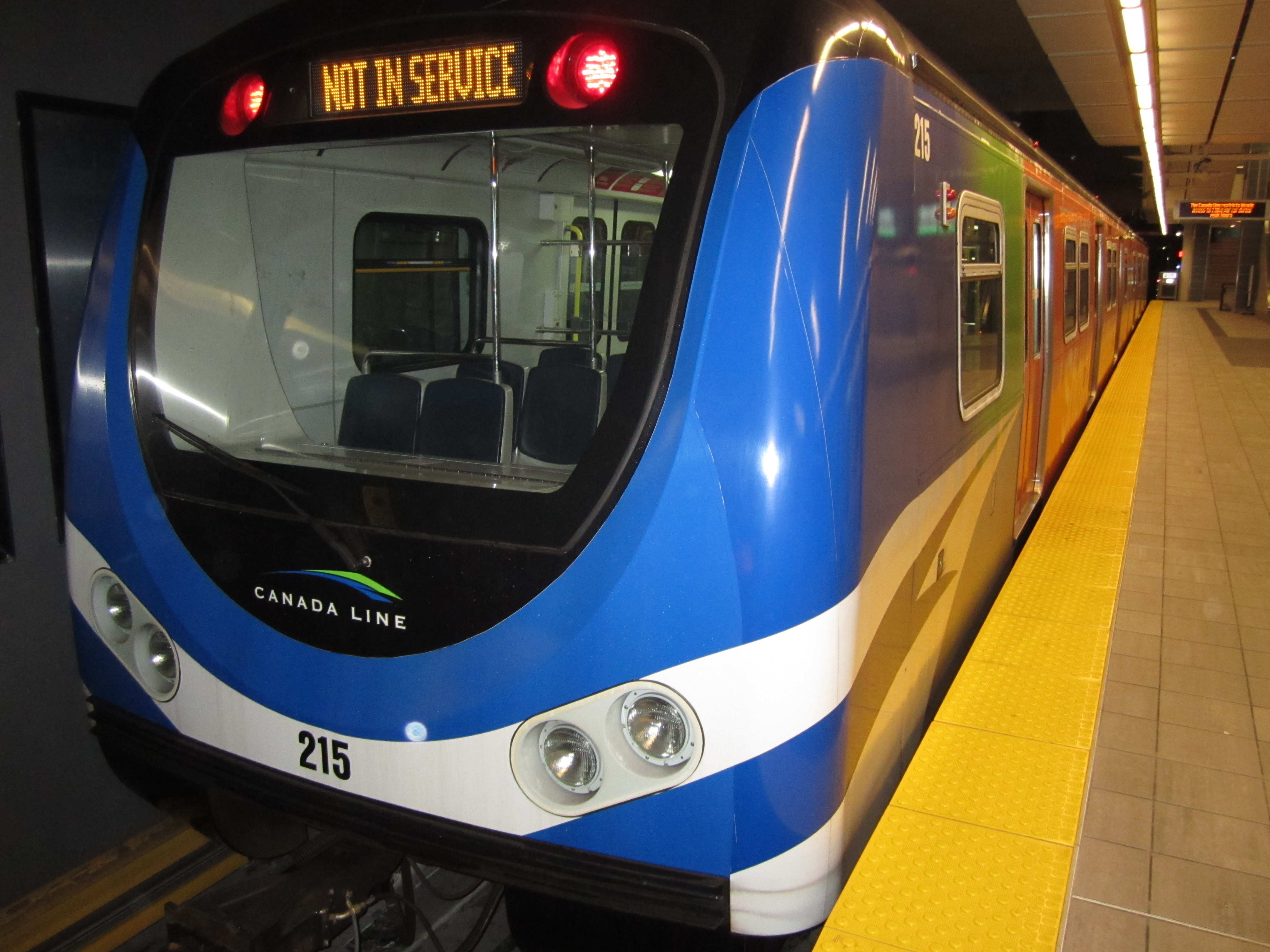 Canada Line Skytrain at Waterfront station, Vancouver, BC